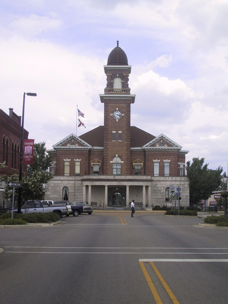 Greenville AL Butler Co Court House